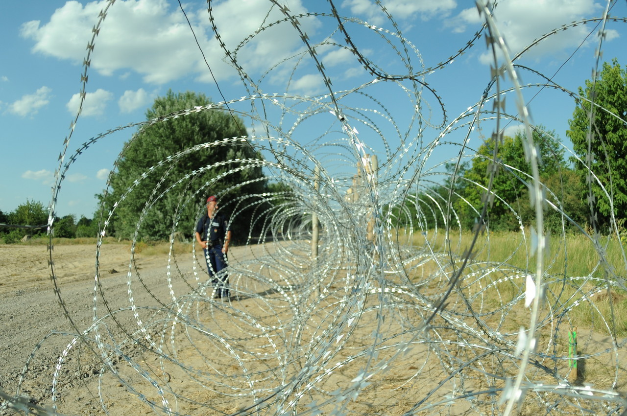 Barrier in Hungarian-Serbian border